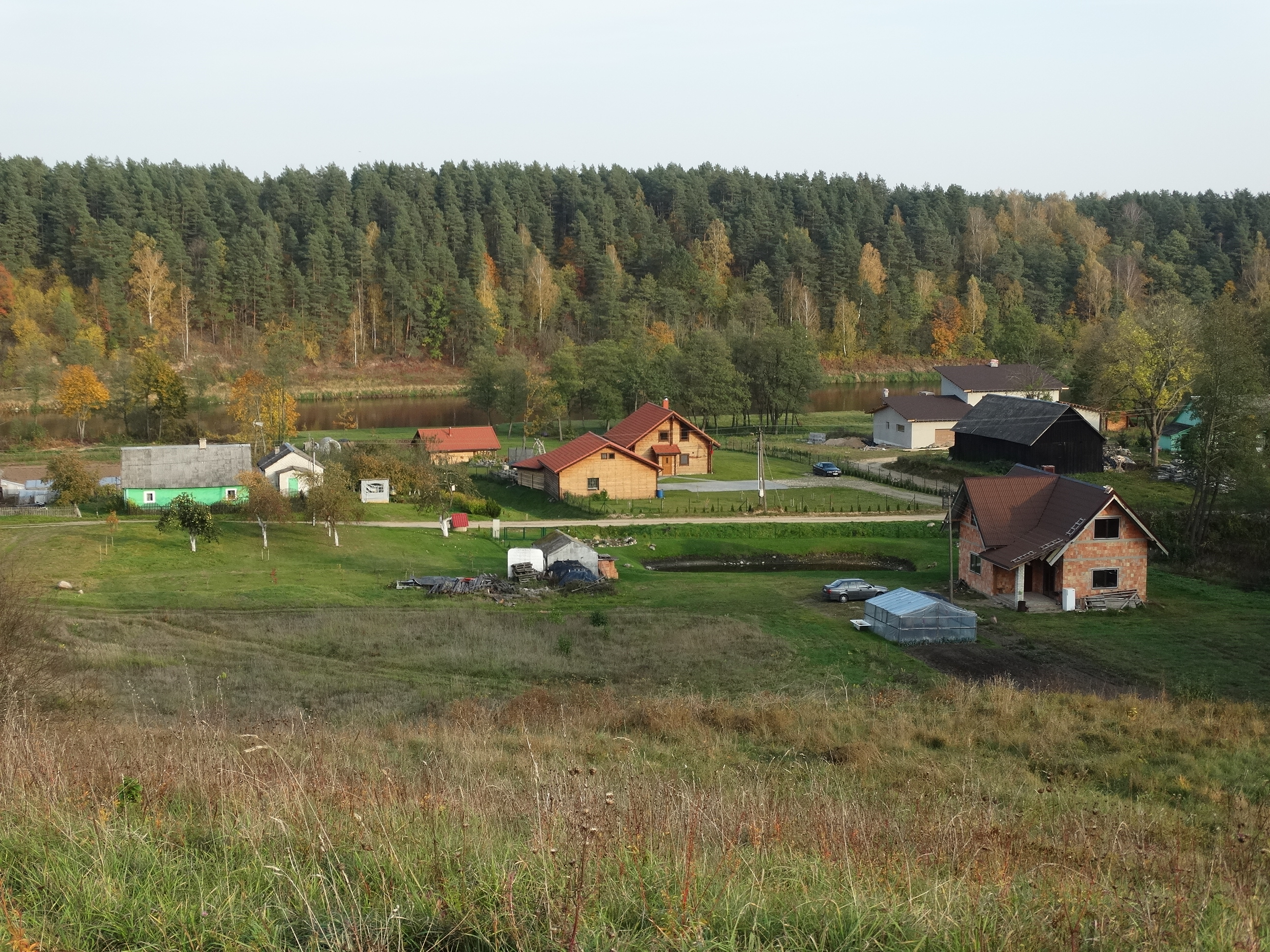 Rumbonys, Alytus district, Lithuania